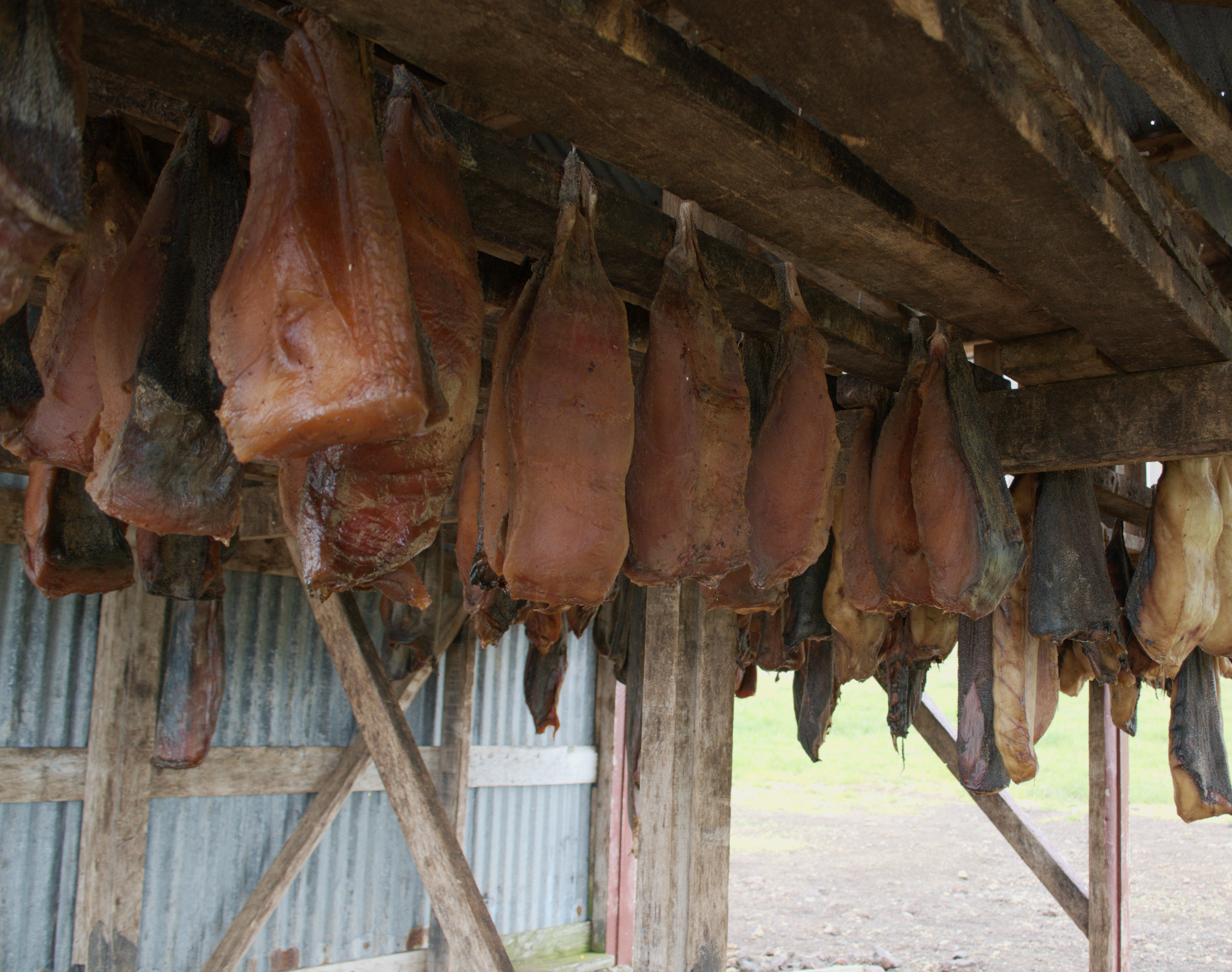 shark meat on Iceland